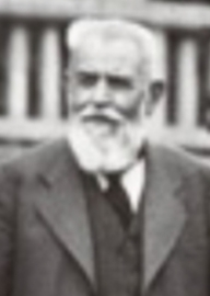 Photo of Aca Stanojević